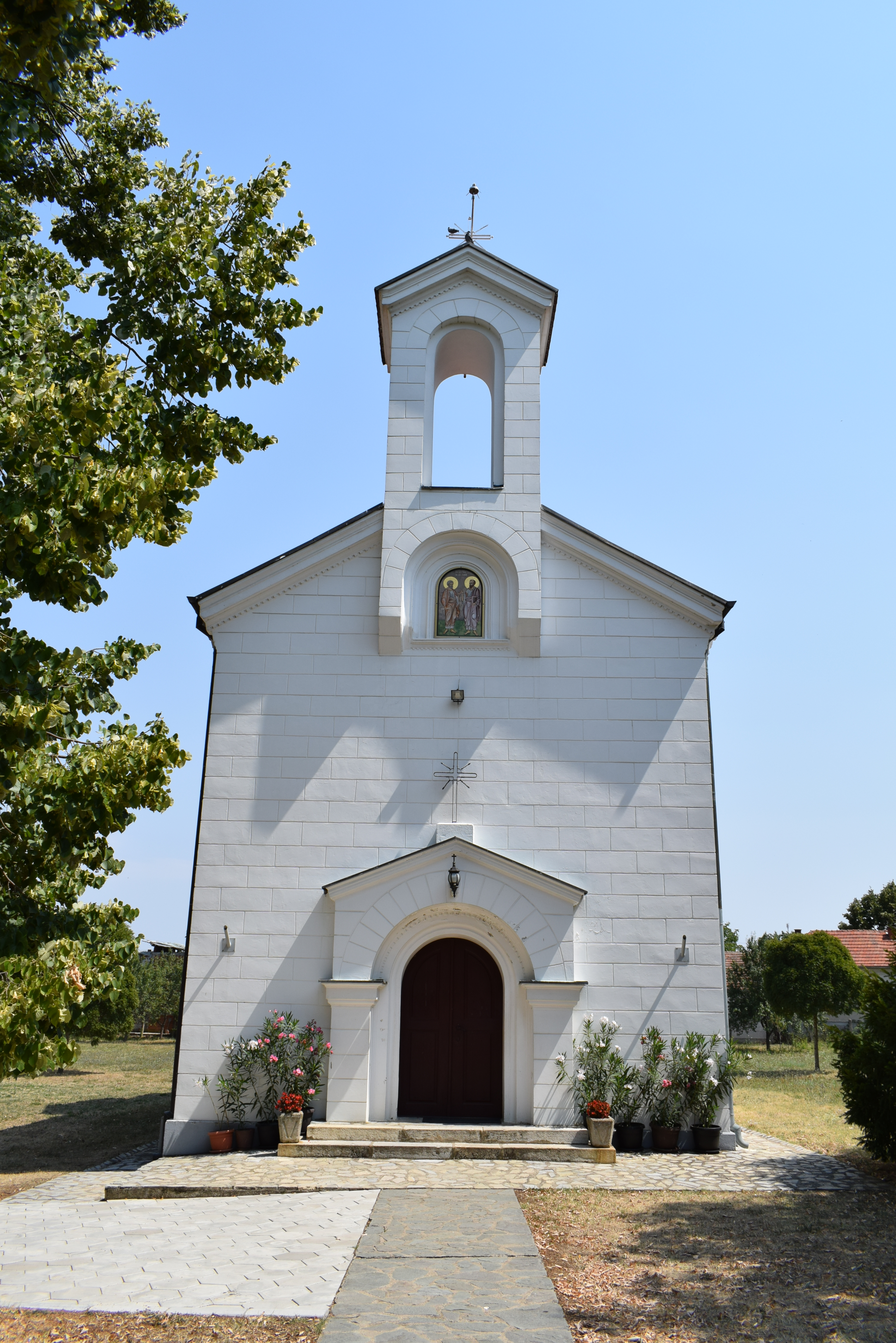 Crkva Svetih Apostola Petra i Pavla, Žitorađa 04